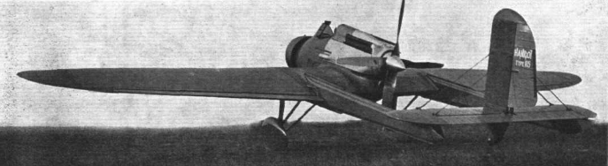 The Hanriot H.115